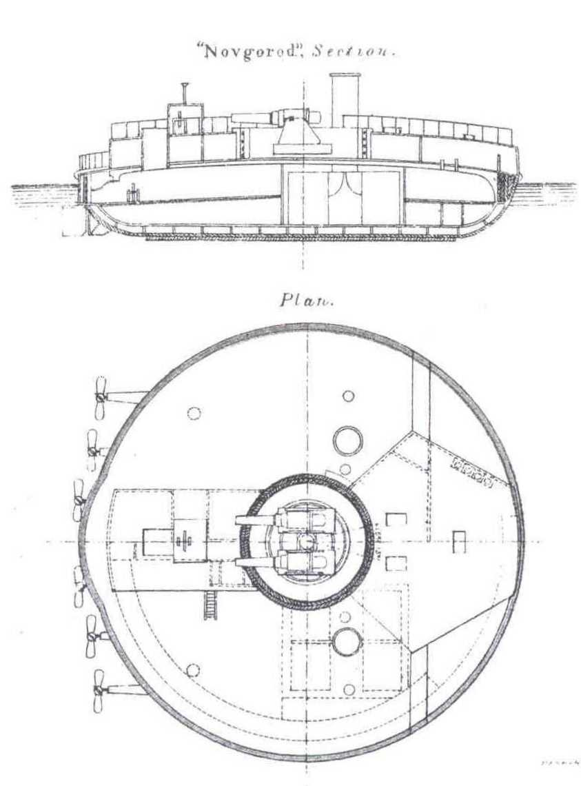 Russian circular turret ship Novgorod, launched 1873.